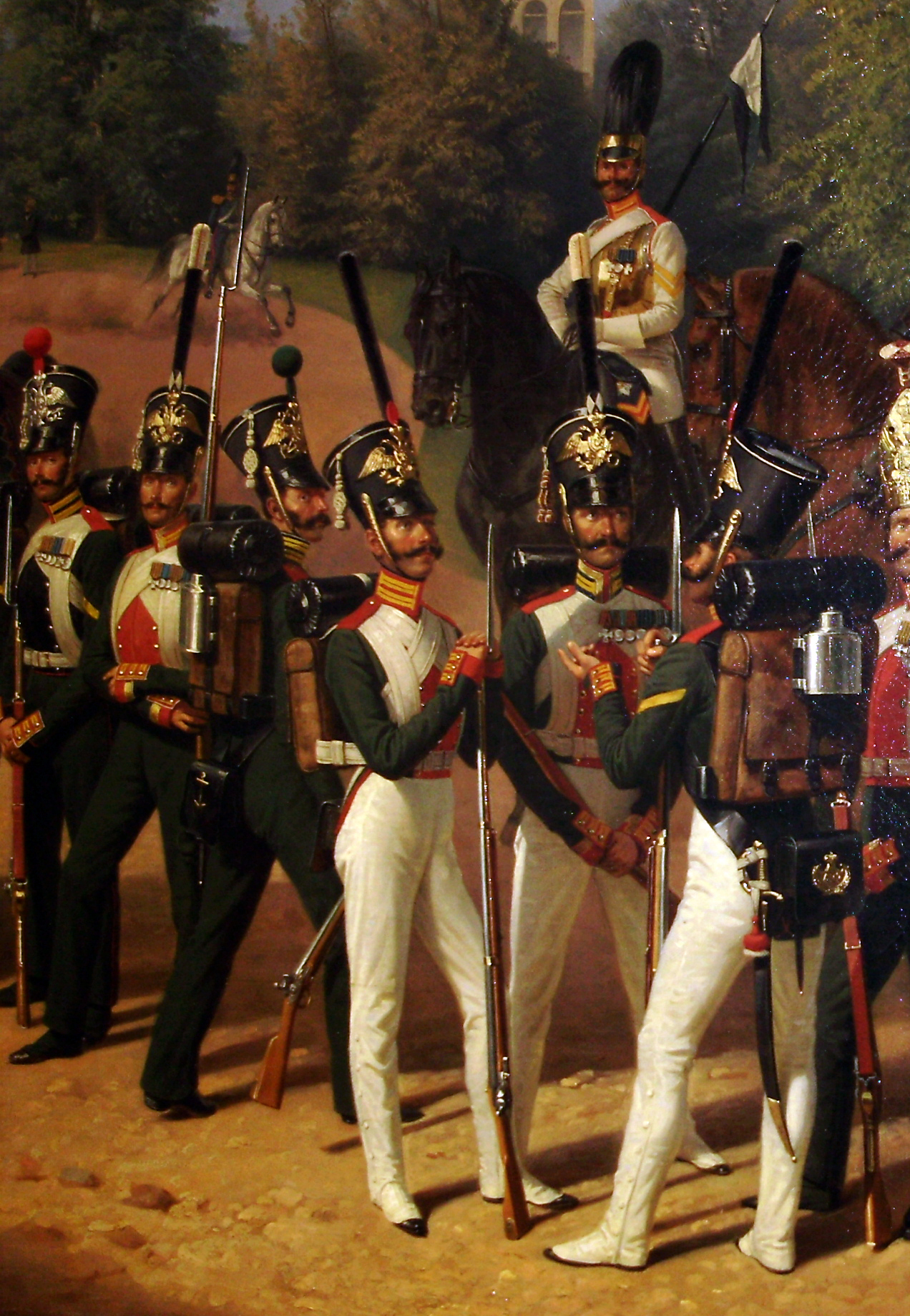 Franz Krüger, 1797-1857, Russian Guards at Tsarskoye Selo in 1832, Oil on Canvas